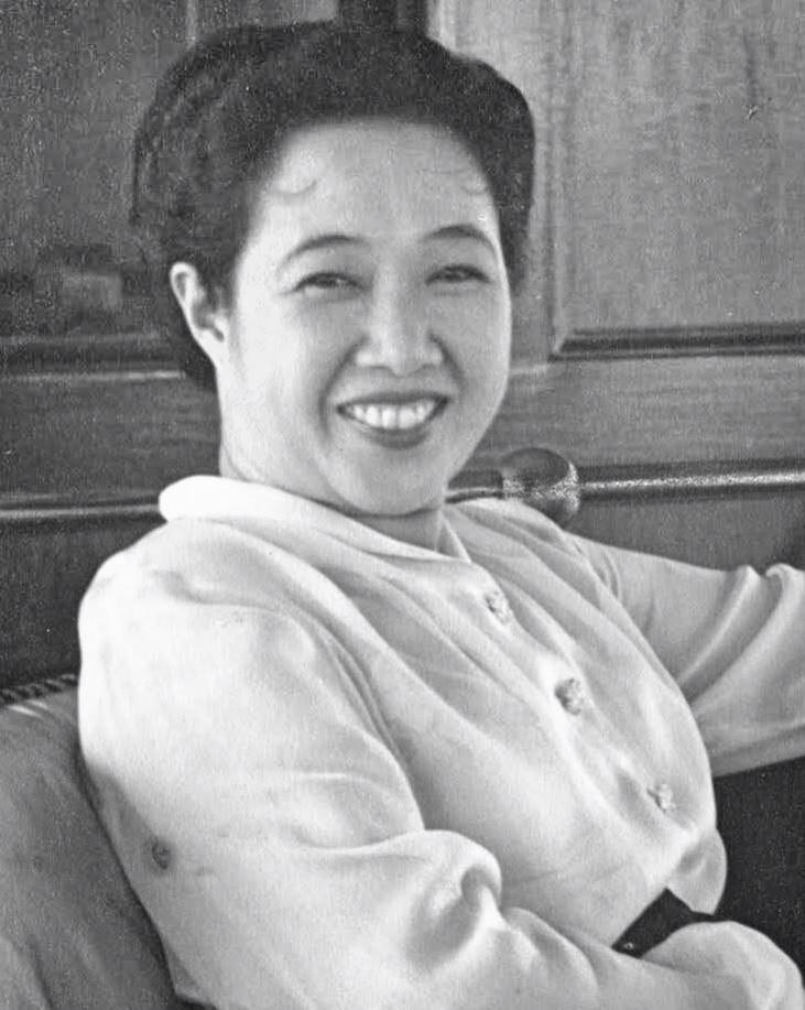 Her Majesty Queen Rambhai Barni in Rama VII